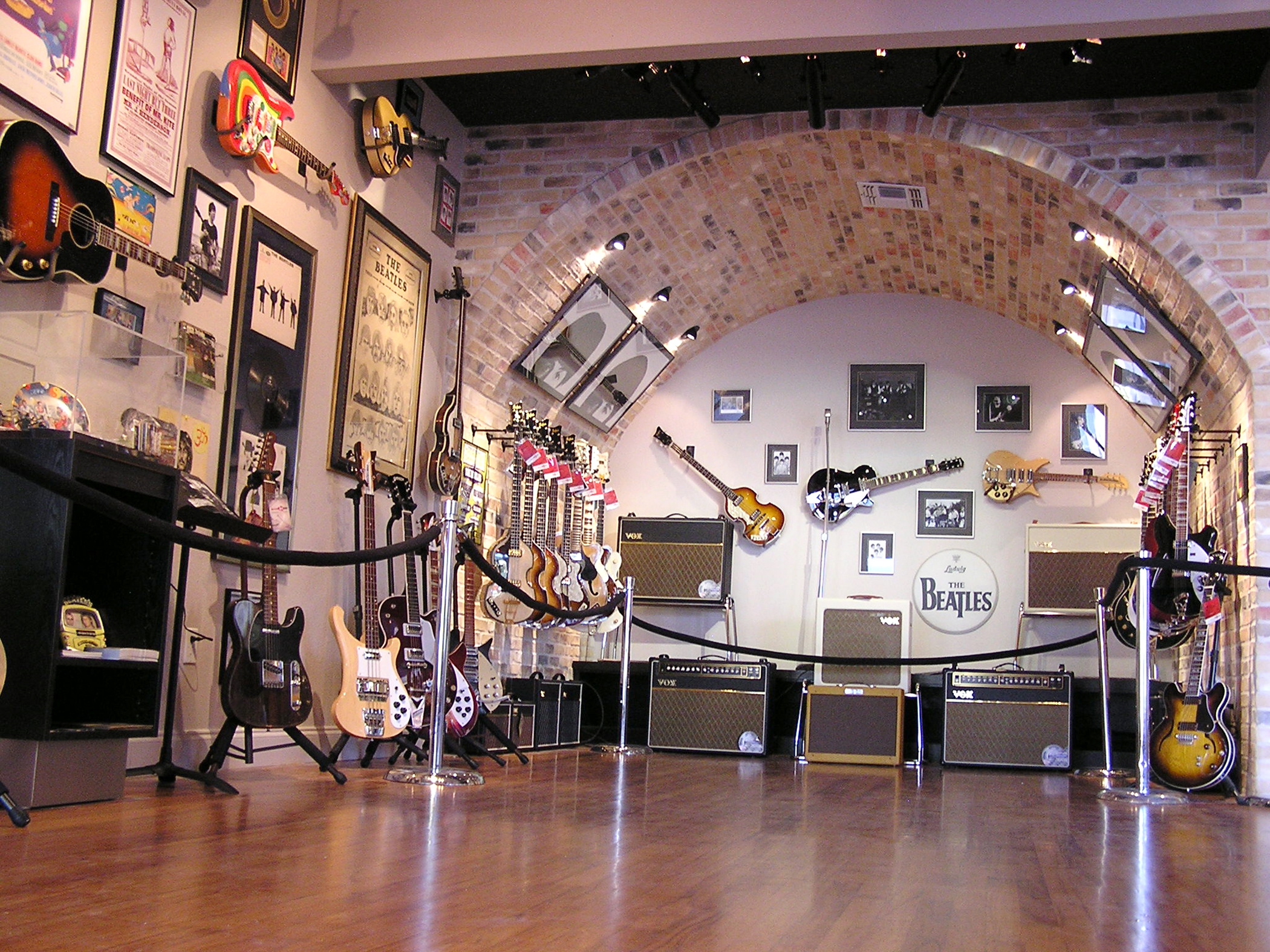 Redbone Cavern Club Showroom